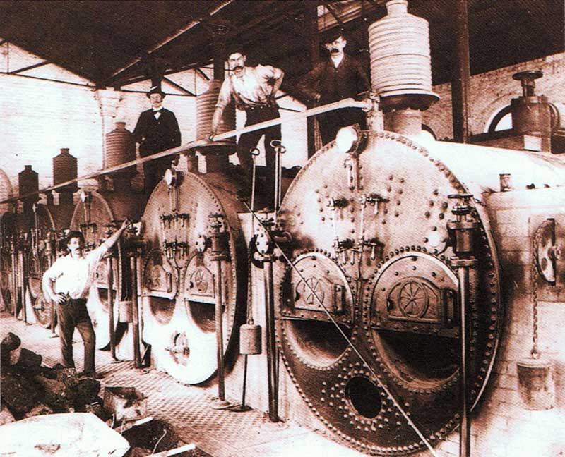 Walka Water Works boilers, Maitland, New South Wales, Australia